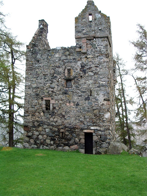 Knock Castle.